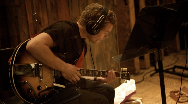 Jakob Bro at the recordings for "Balladeering"